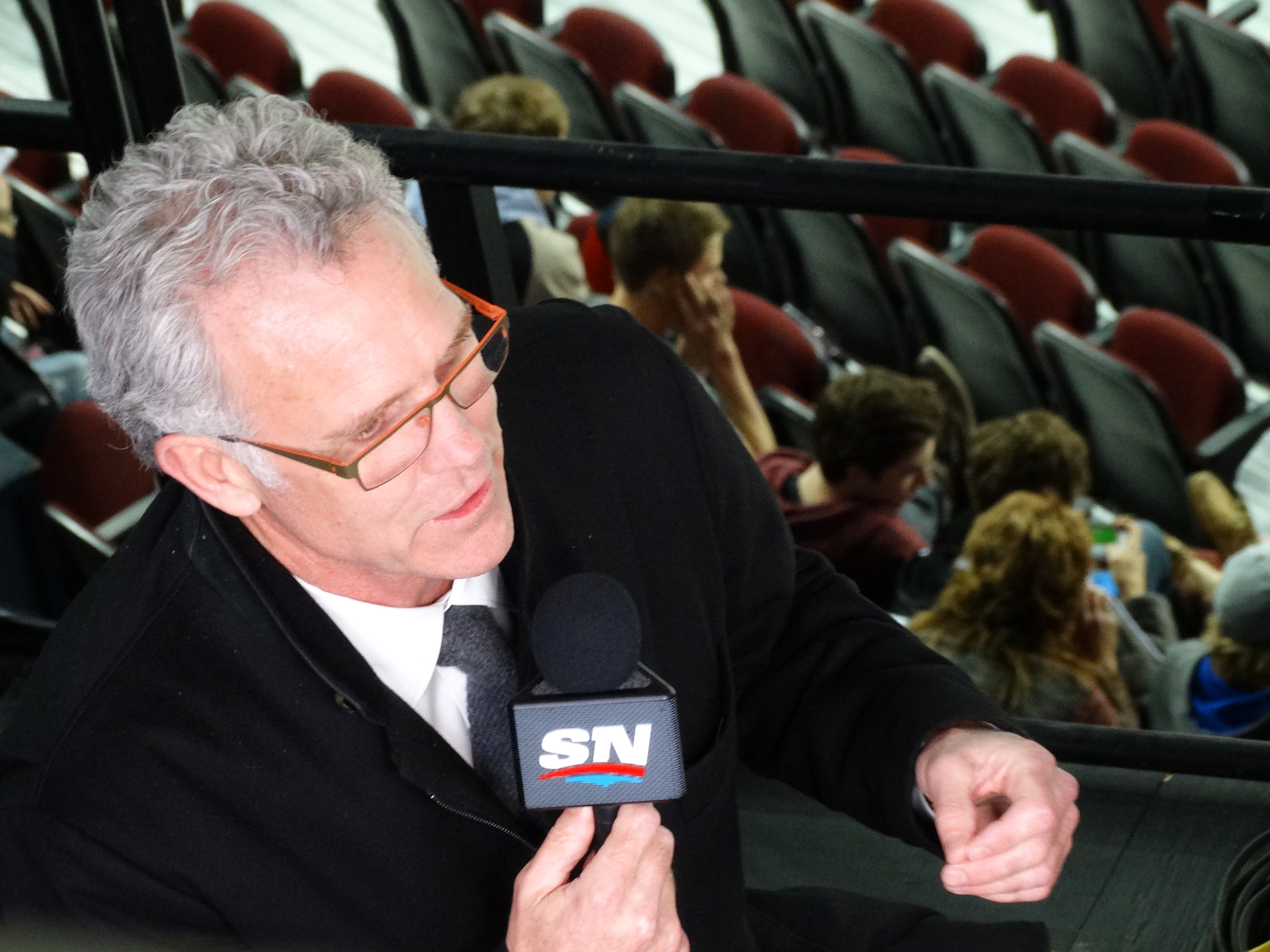 Craig MacTavish, the General Manager of the NHL's Edmonton Oilers, is interviewed by Sportsnet between periods. The CHL Top Prospects game at Scotiabank Saddledome on January 15, 2014 in Calgary, Alberta, Canada. Team Orr defeated Team Cherry 4-3.